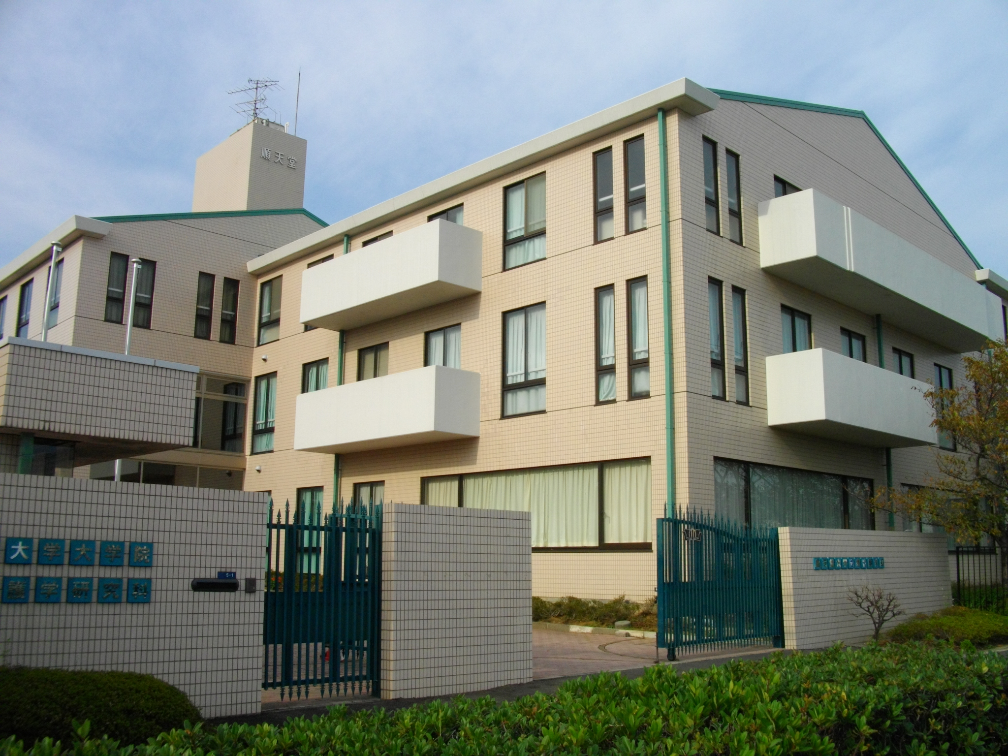 Juntendo University Faculty of Health Care and Nursing